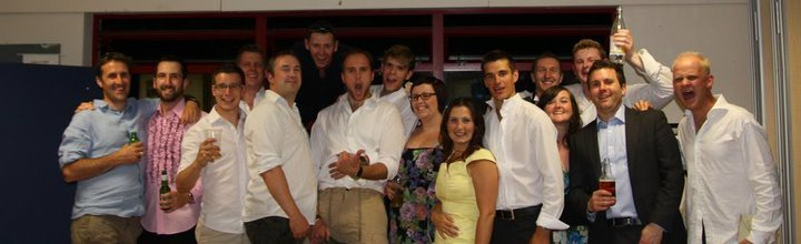 A photo taken from the 2010 DMURC Old Boys Ball